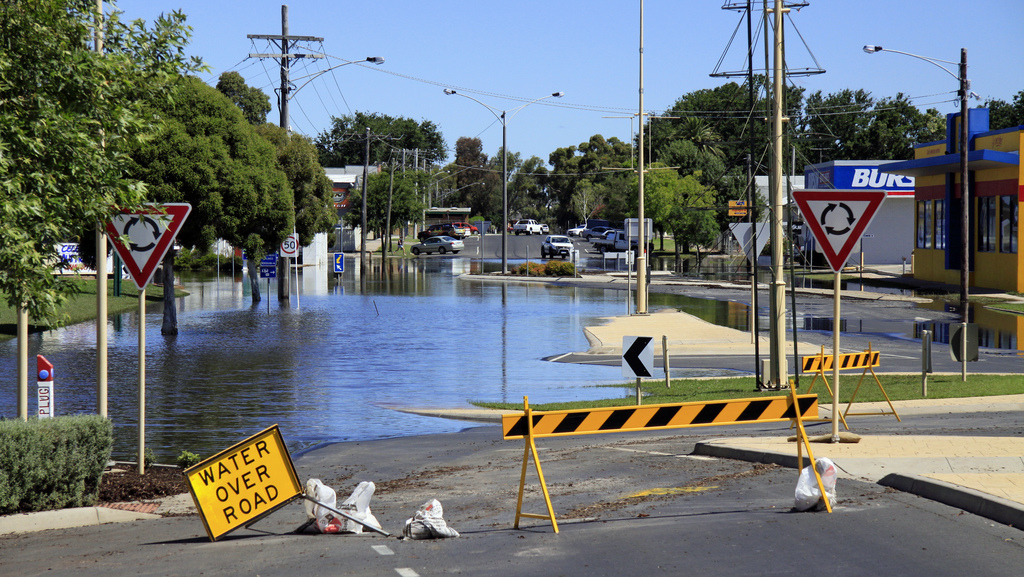 Horsham during the 2011 Floods.